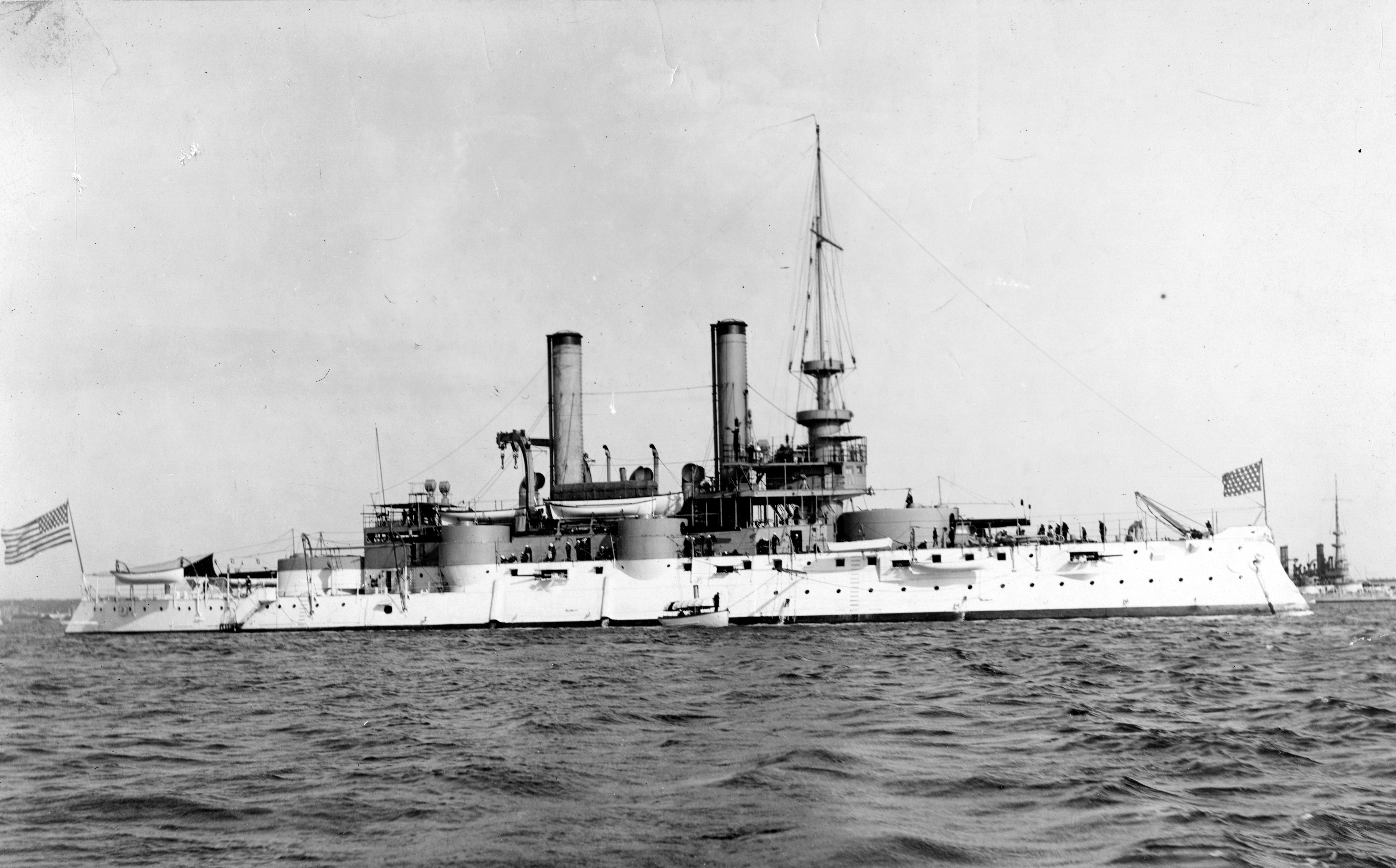 (Battleship # 4) At anchor, circa the early 1900s. U.S. Naval History and Heritage Command Photograph.